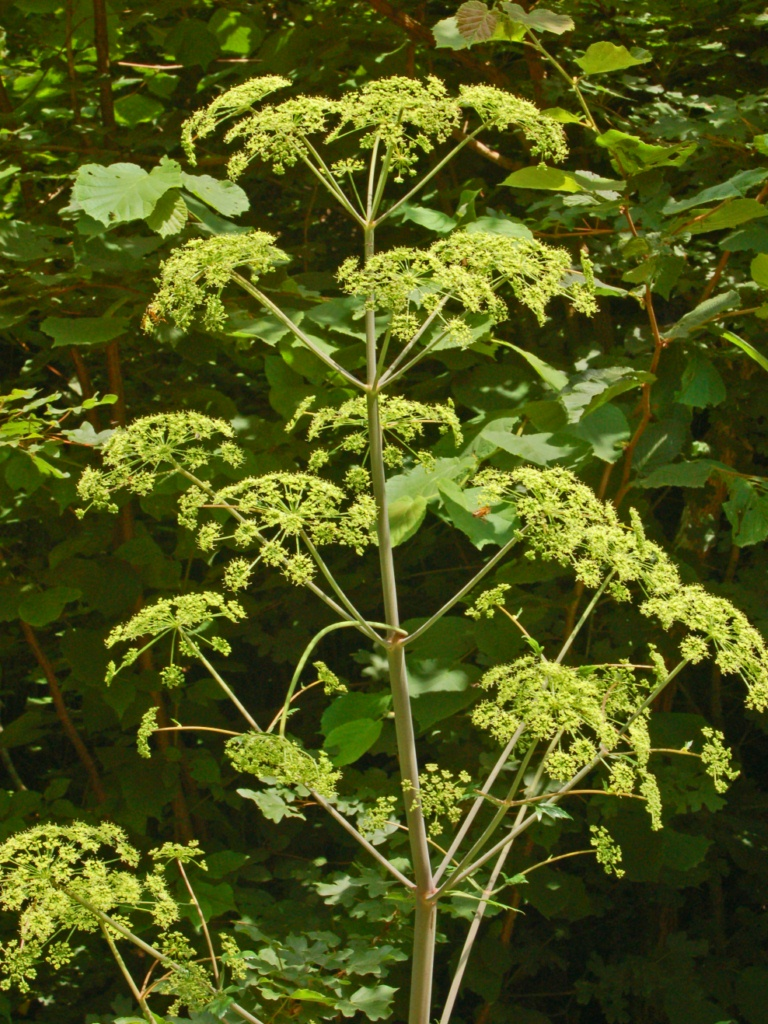 Peucedanum verticillare - Val Noci, Genova, Italy